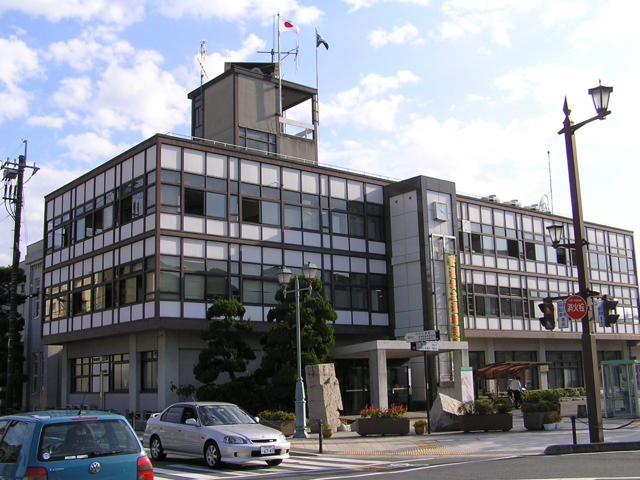 kasaoka city office